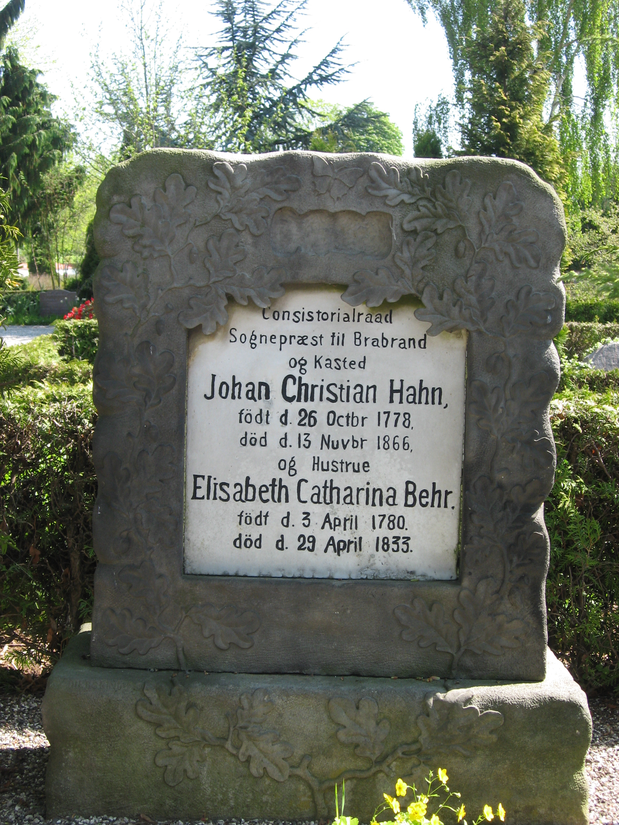 Gravestone for the Hahn family (father, mother and several sons and daughters) at the cemetery at Brabrand Kirke near Århus, Denmark. Here the front with the names of the father and mother.